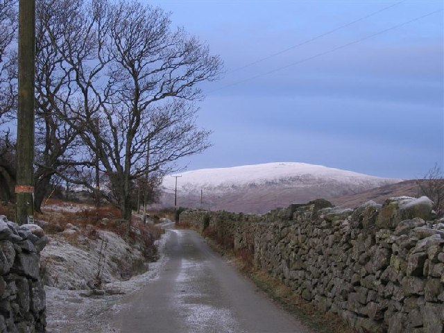 Road to Cwm Eigiau. Heading up the narrow lane above the Conwy Valley to Cwm Eigiau at 09:35 with the temperature at -6 degrees C. In the background is Foel Fras at over 3,000 feet and covered in snow and frost.